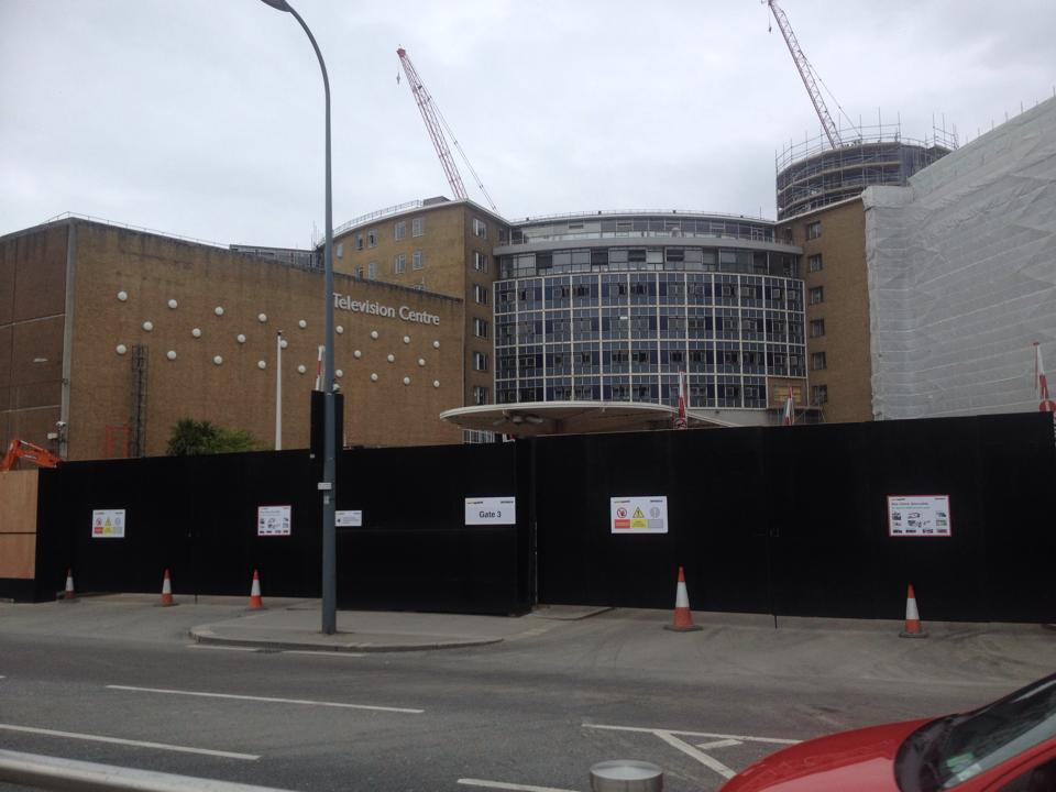 BBC Television Centre in redevelopment and refurbishment on 24th May 2015.